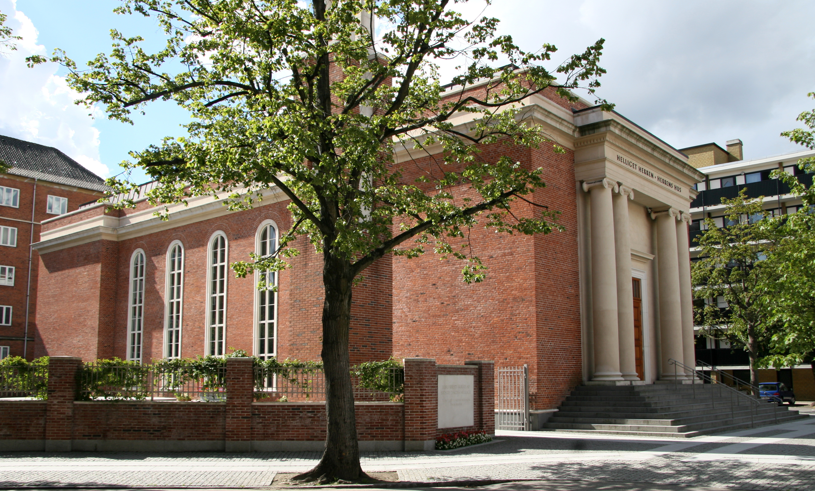 The Copenhagen Denmark Temple of The Church of Jesus Christ of Latter-day Saints.